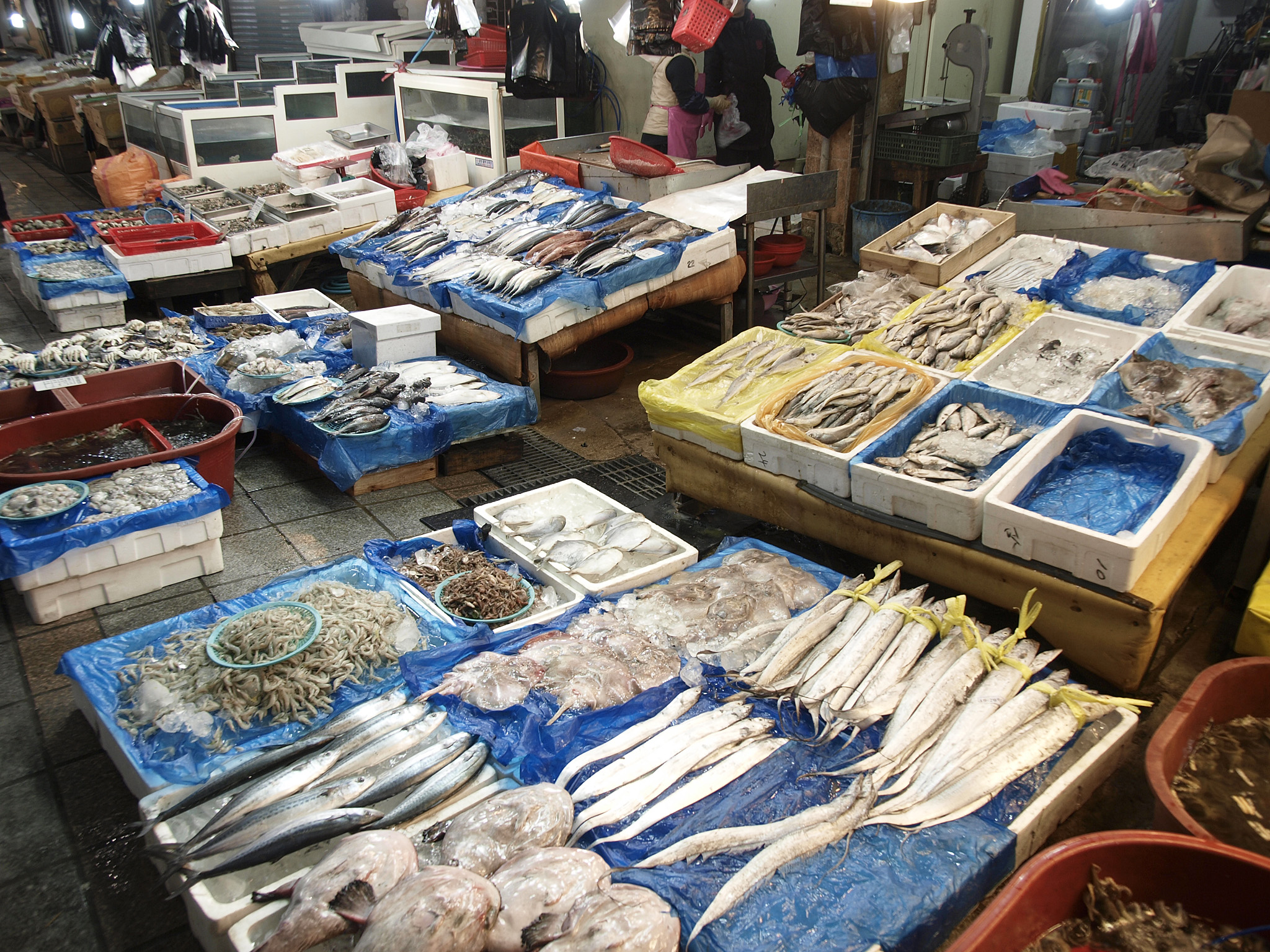 Korean traditional market at Jeongeup, Jeollabuk-do, South-Korea